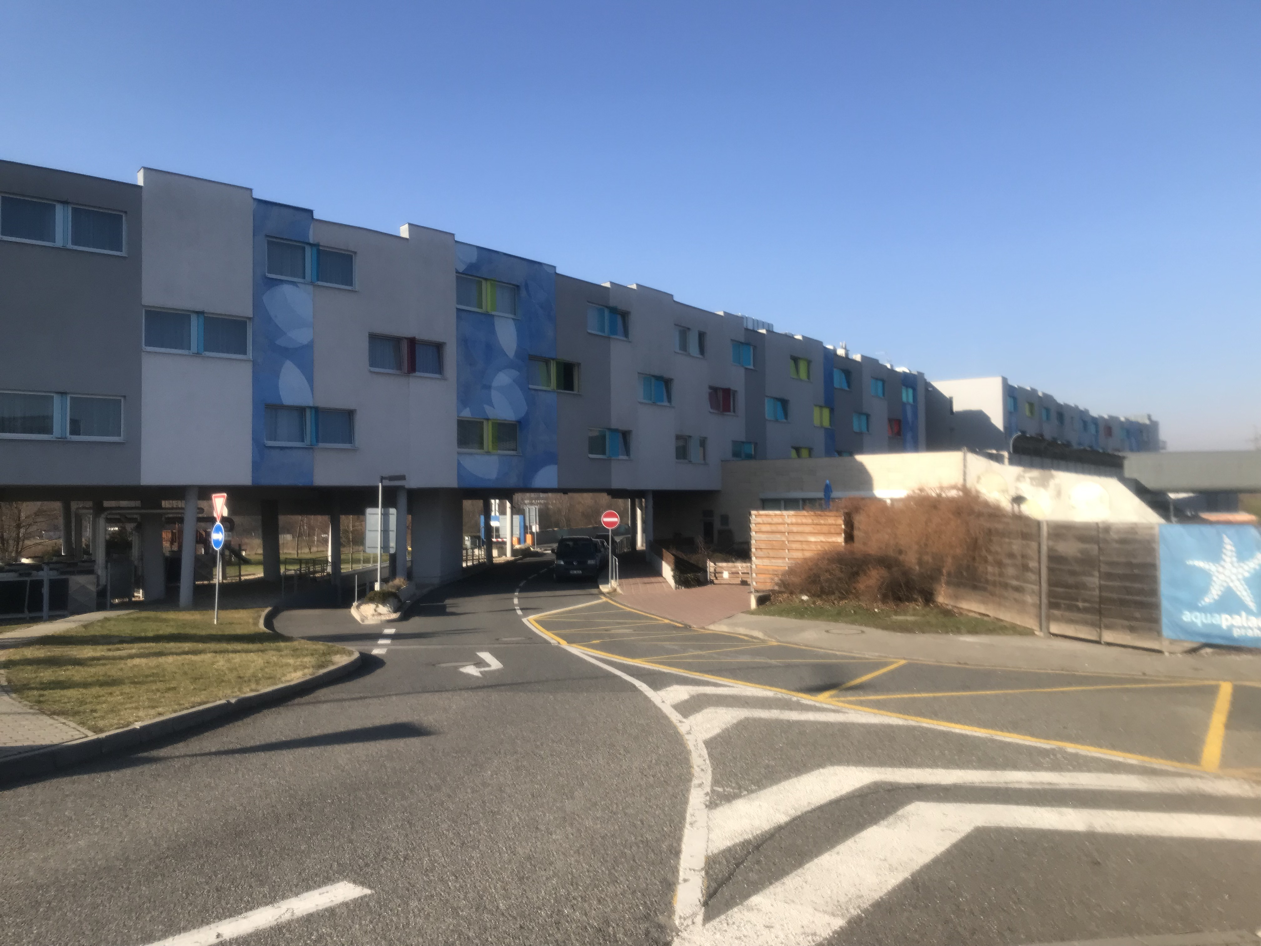 Hotel Aquapalace Prague from south in 2019